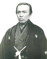 The Japanese botanist Sugawa Chōnosuke (須川長之助, 1842–1925)